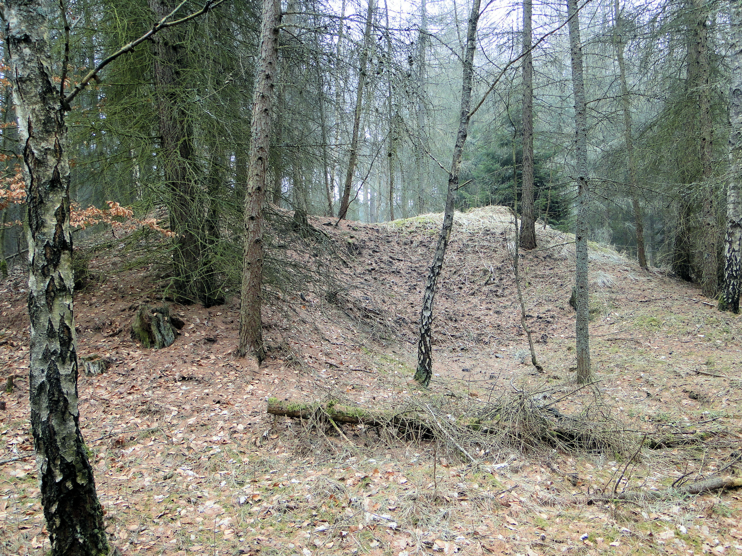 Former tar oven in Jellen, district Parchim, Mecklenburg-Vorpommern, Germany